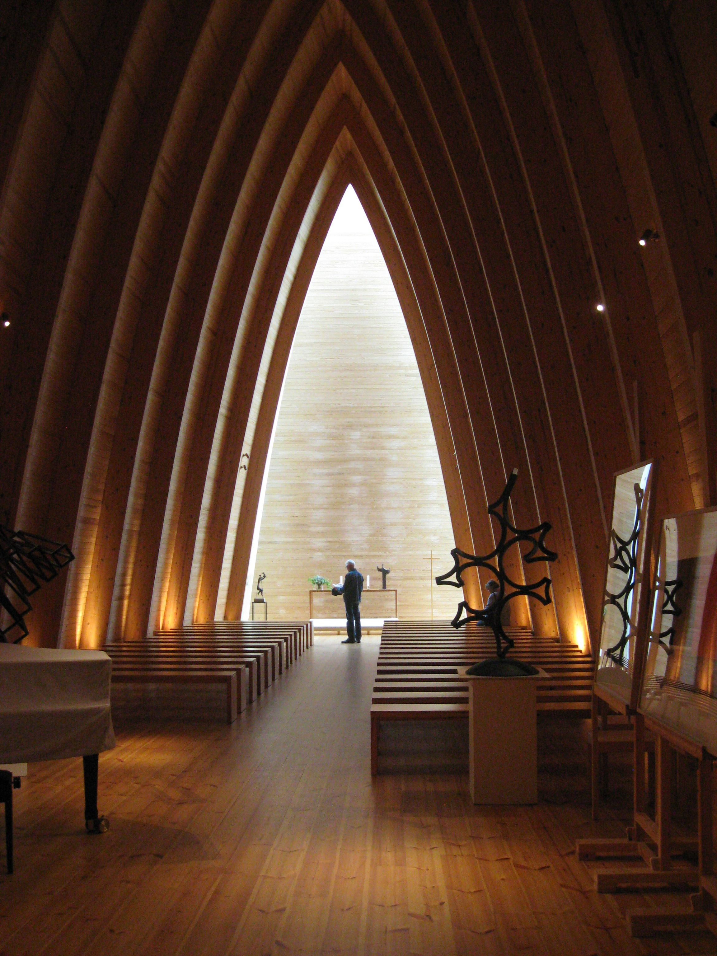 The Ecumenical Art Chapel of St. Henry, Hirvensalo, Turku, Finland. Gereral interior view.